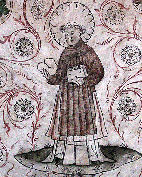 Saint Stephen in Överselö kyrka